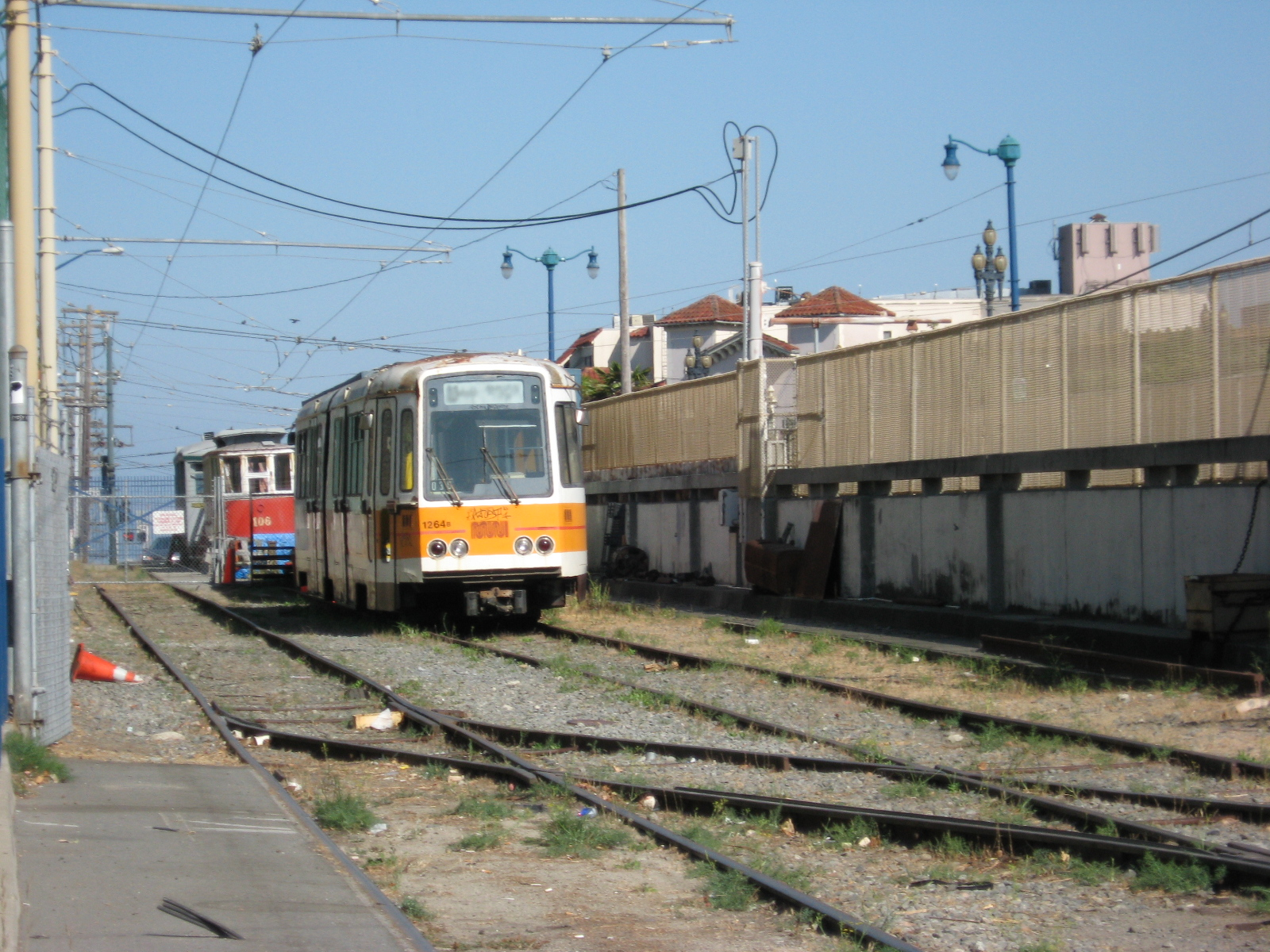 A retired Boeing-Vertol light rail vehicle (LRV) at Duboce Yard. This picture was taken on September 11, 2007, and the car will be converted into a wrecker in the years to come. In the background is two-axle streetcar No. 106 from Moscow/Orel, Russia, waiting to be restored.